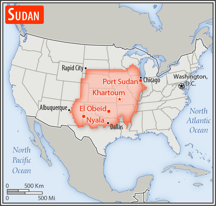 Comparison of the areas of two country. The area of Sudan with biggest cities (red) overlay the area of the United States of America (gray background).